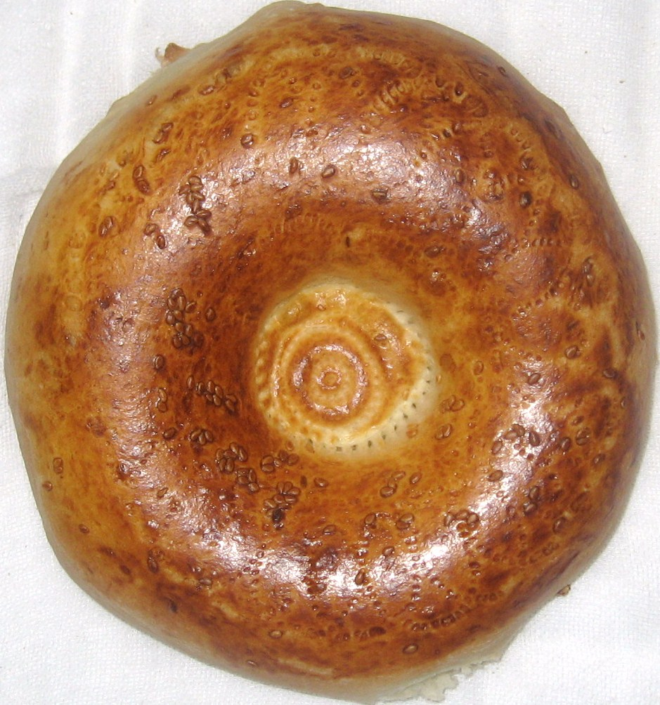 tokach, tokash, togach or Samarqand noni, flatbread baked in tandoor. Common for Central Asia (Uyghur people, Kazakhstan, Kyrgyzstan, Tajikistan, Uzbekistan)